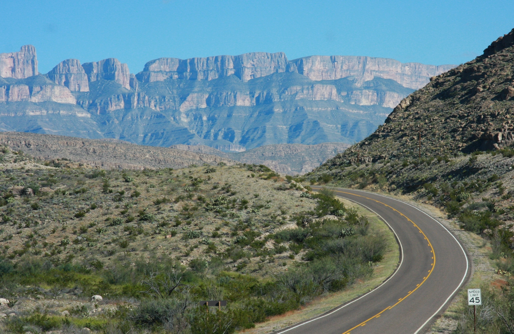 Sierra del Carmen in Mexico near Boquillas Canyon in Big Bend National Park, Texas